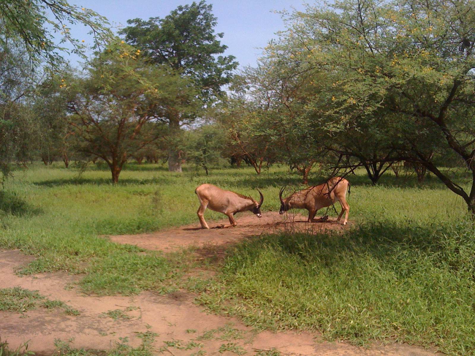 Antelopes in battle - Hippotragus equinus, and the native plants of the Sahel sub-Saharan savanna, in the Bandia Reserve, Senegal.